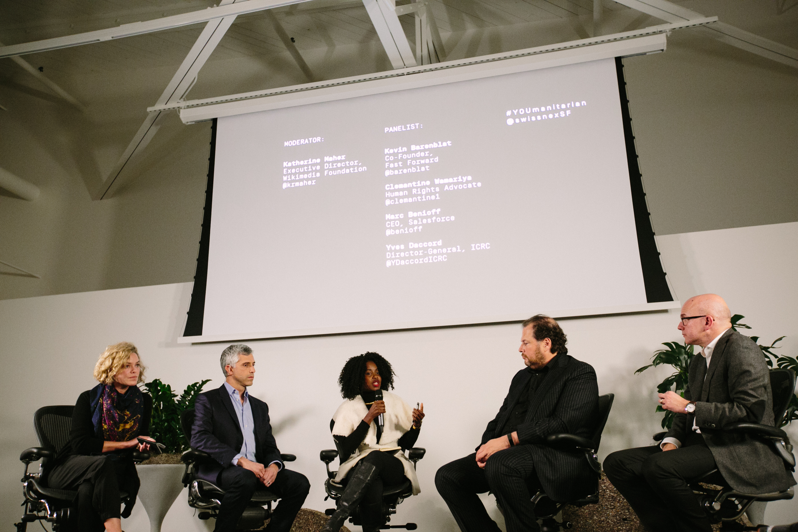 Clemantine Wamariya with Katherine Maher, Kevin Barenblat, Marc Benioff, and Yves Daccord, at the Everyone a Humanitarian launch event in San Francisco in 2016